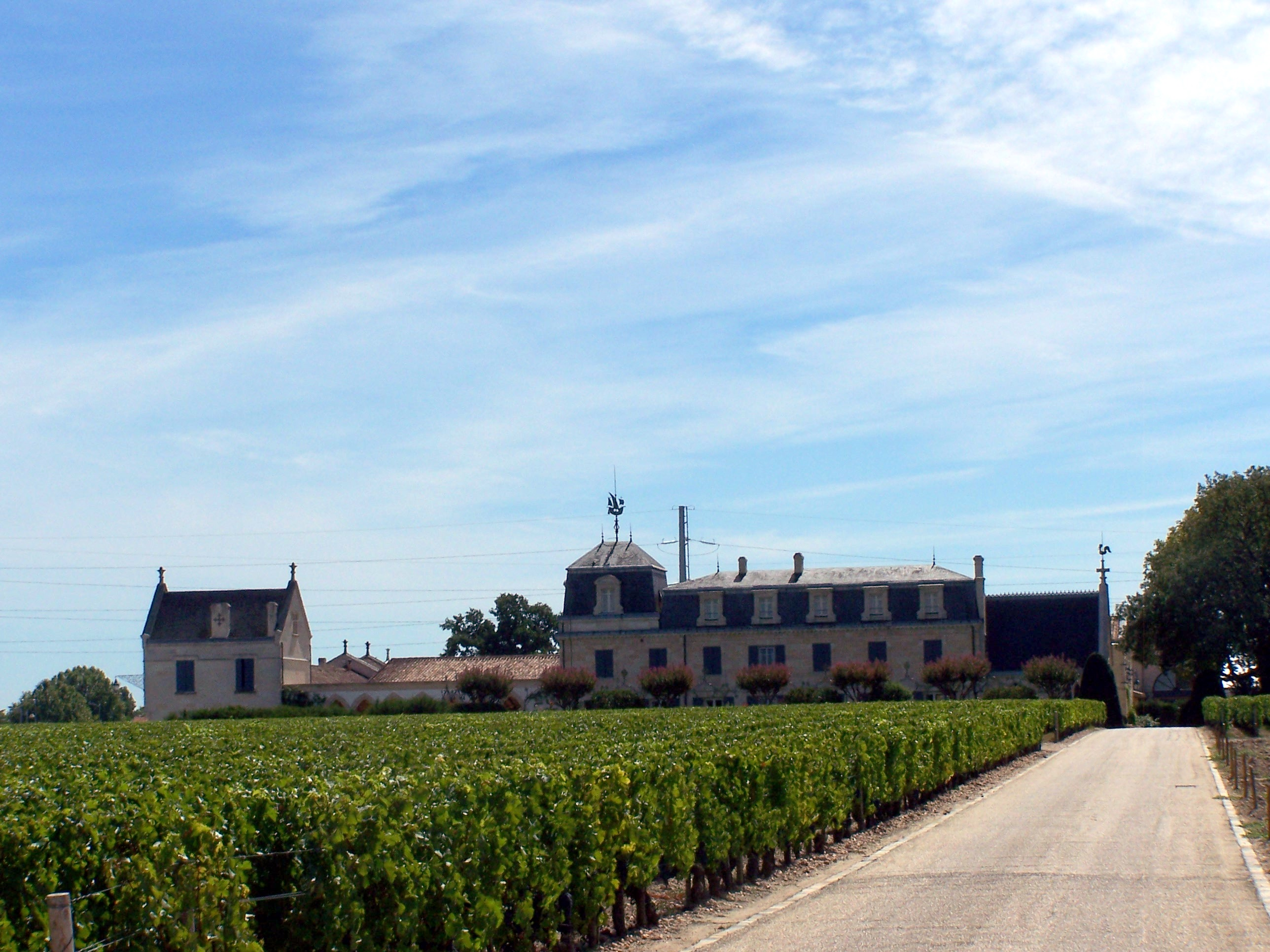 Château la Mission Haut-Brion in Pessac (Gironde, France)